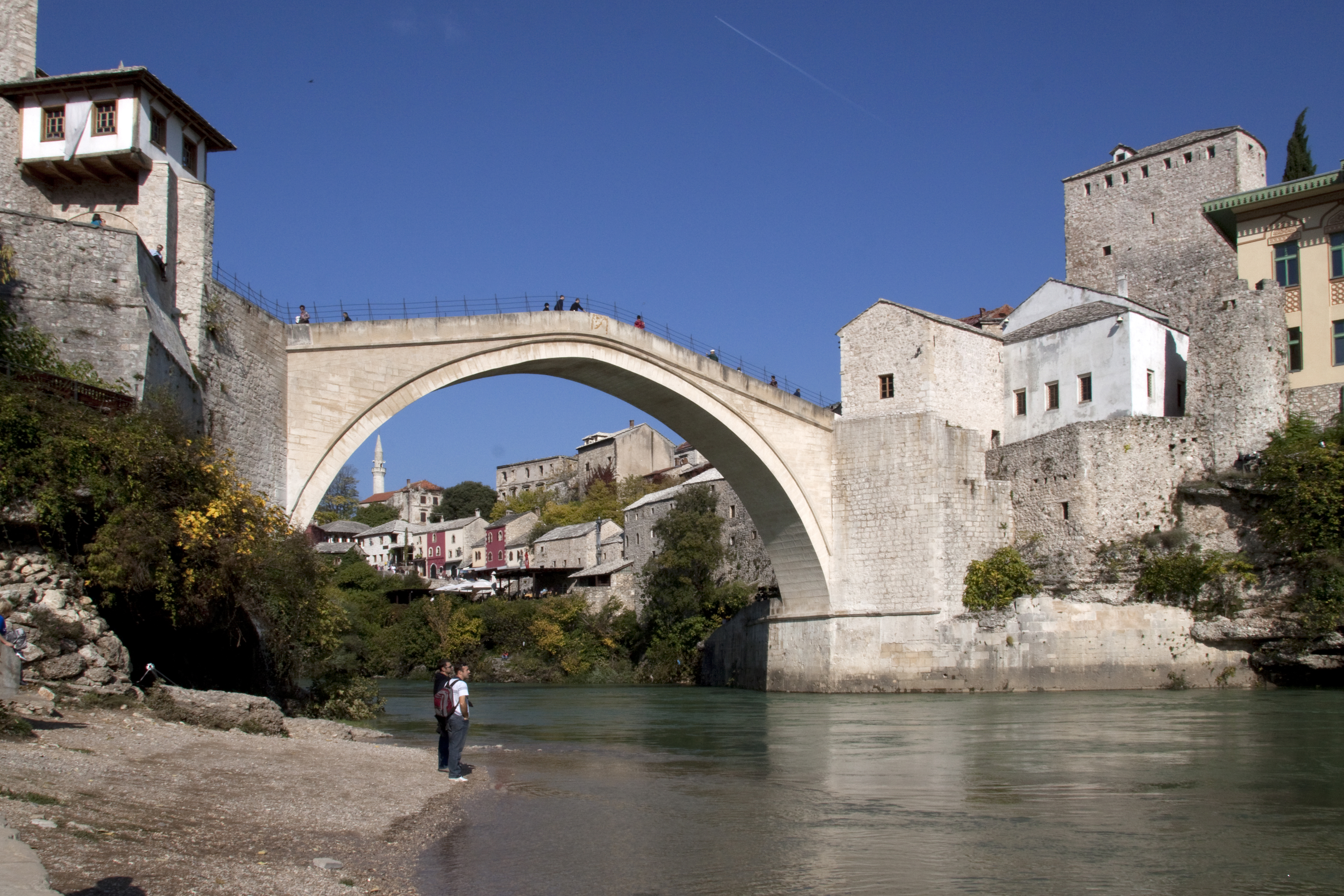 The Old Bridge (Stari Most) over the river Neretva in Mostar. The bridge was built during the 16th Century, but was destroyed on the 9th of November 1993 by the Croatian defence force. The bridge was rebuilt and opened in July 2004